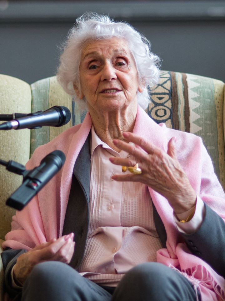 Éva Pusztai-Fahidi during a speech on November ninth 2019 as part of the series „Remembrance means taking sides“, organised by „Initiative 9. November Bünde“ at the auditorium of Gymnasium am Markt Bünde, Germany.